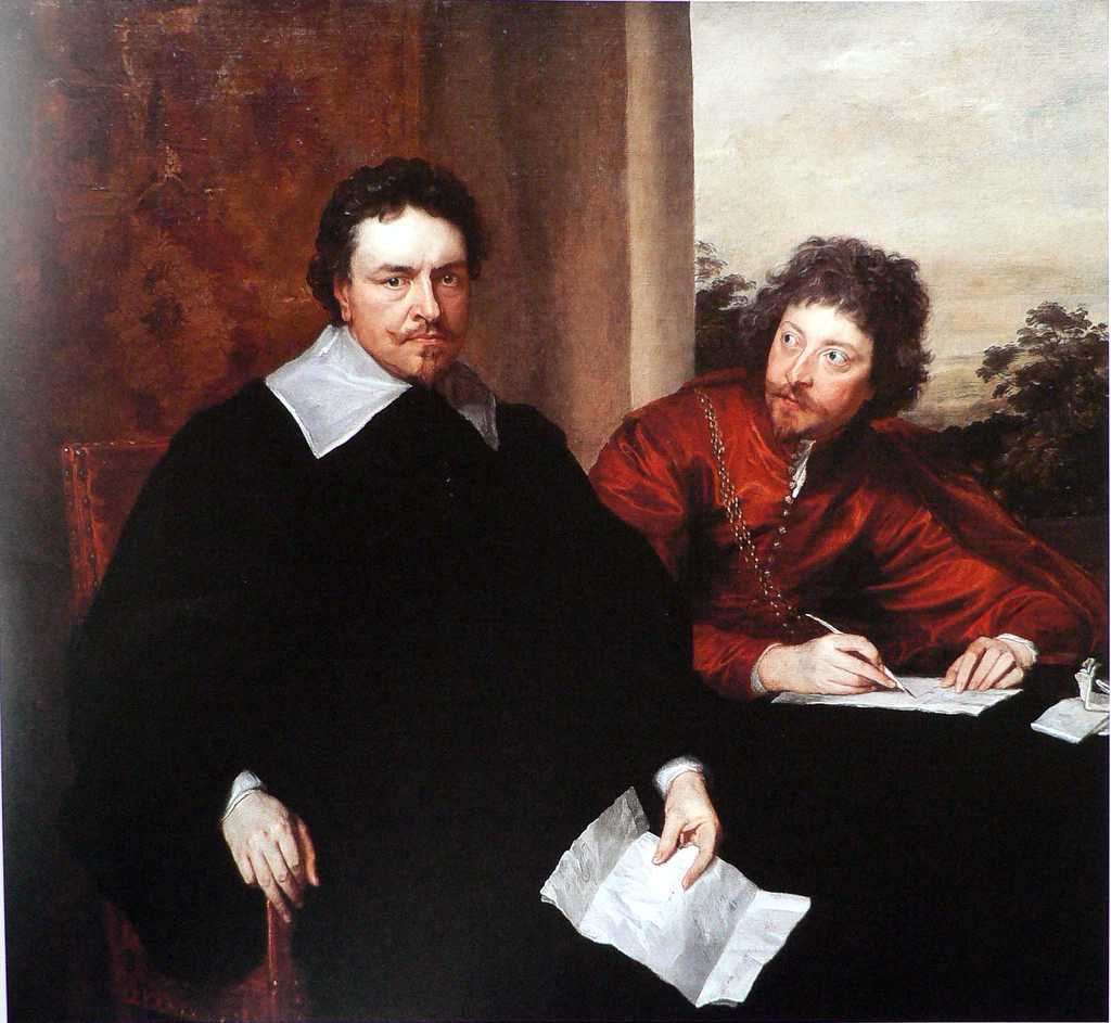 Thomas Wentworth, 1st Earl of Strafford, with Sir Philip Mainwaring